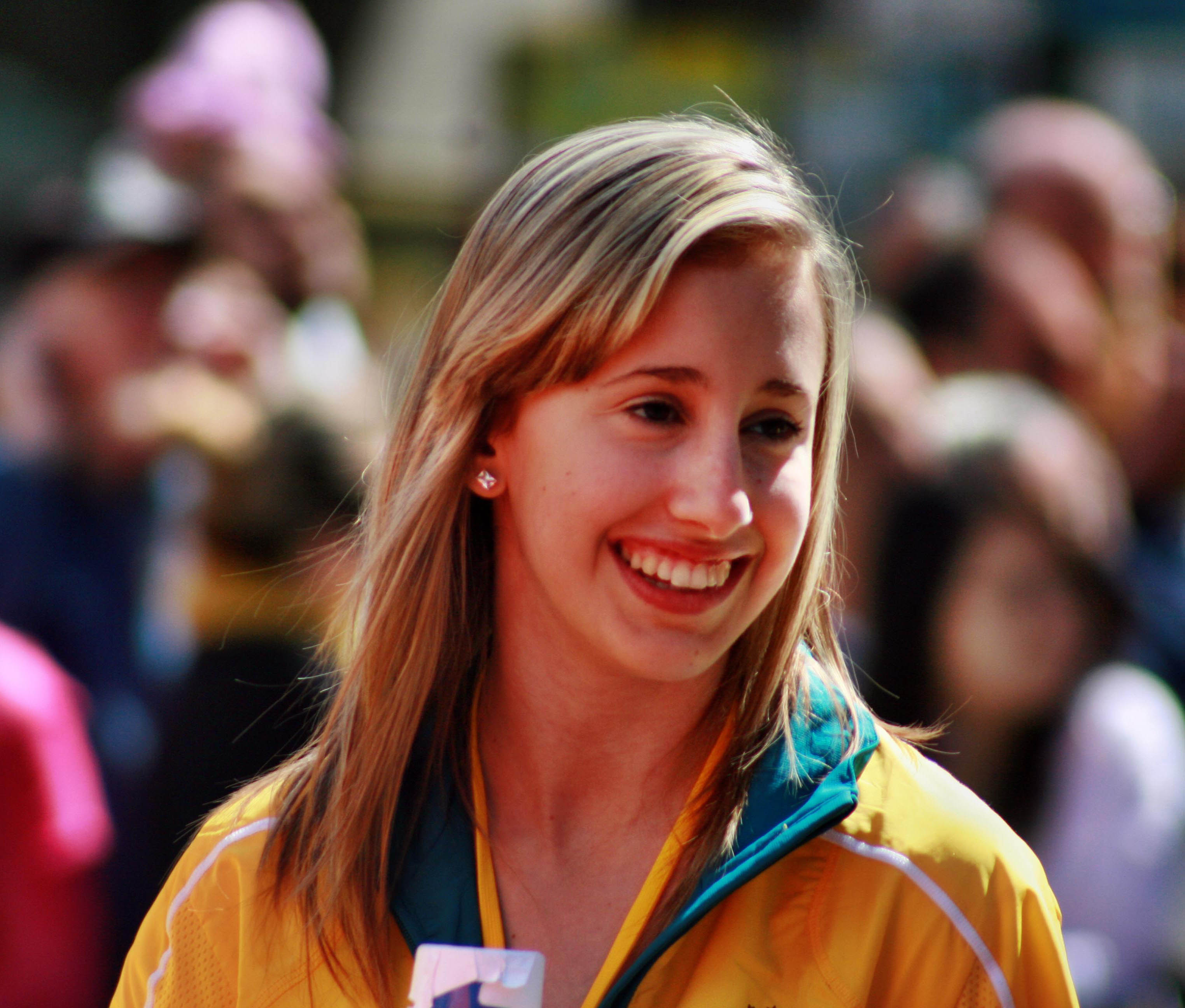 Melbourne homecoming parade for 2008 Olympic Team. Australian gymnast Ashleigh Brennan. [1]